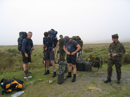 Team members at a checkpoint on Dartmoor.